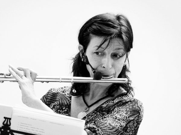 Mariane Bitran (2012)